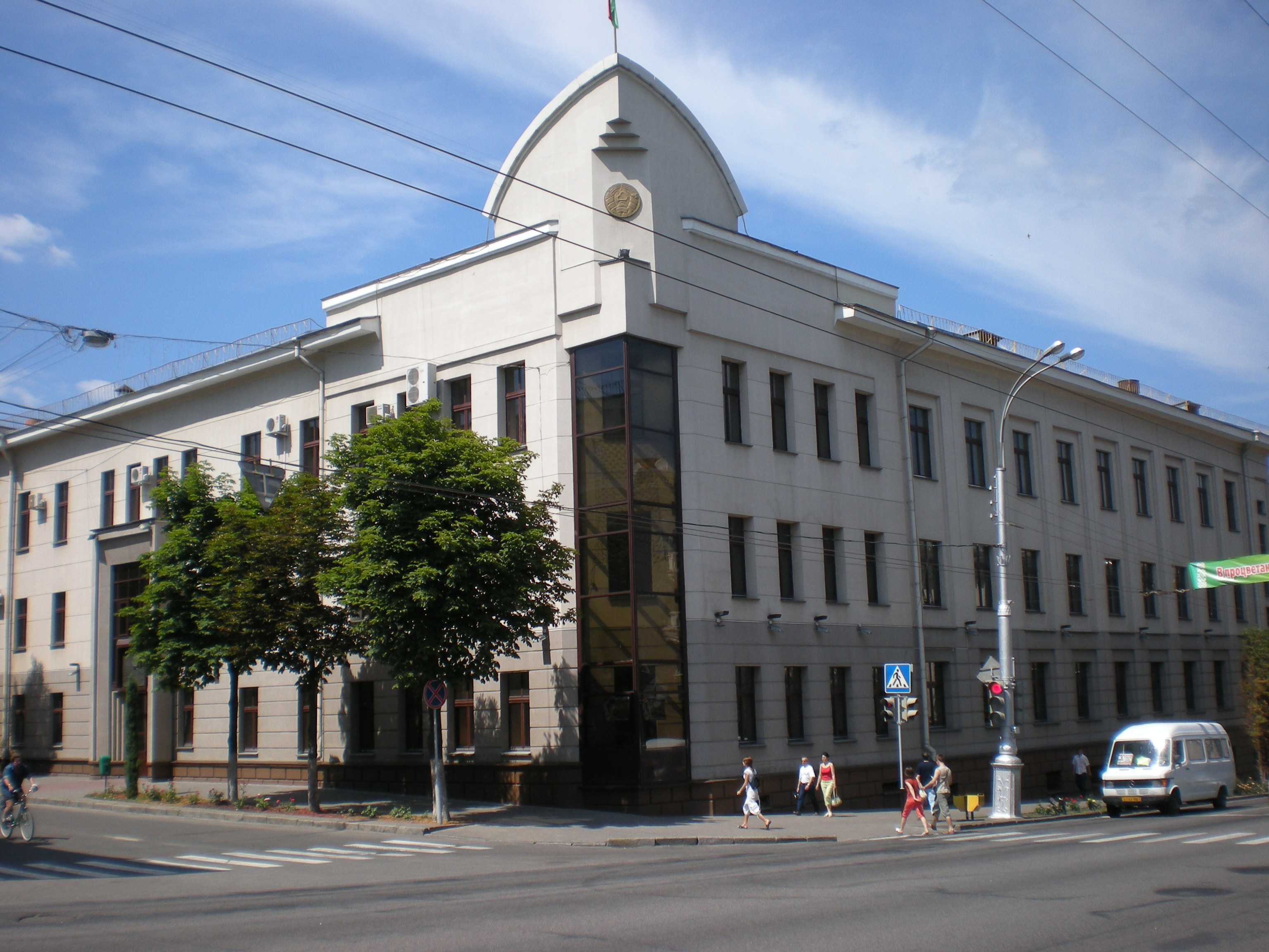 Gomel city counsil